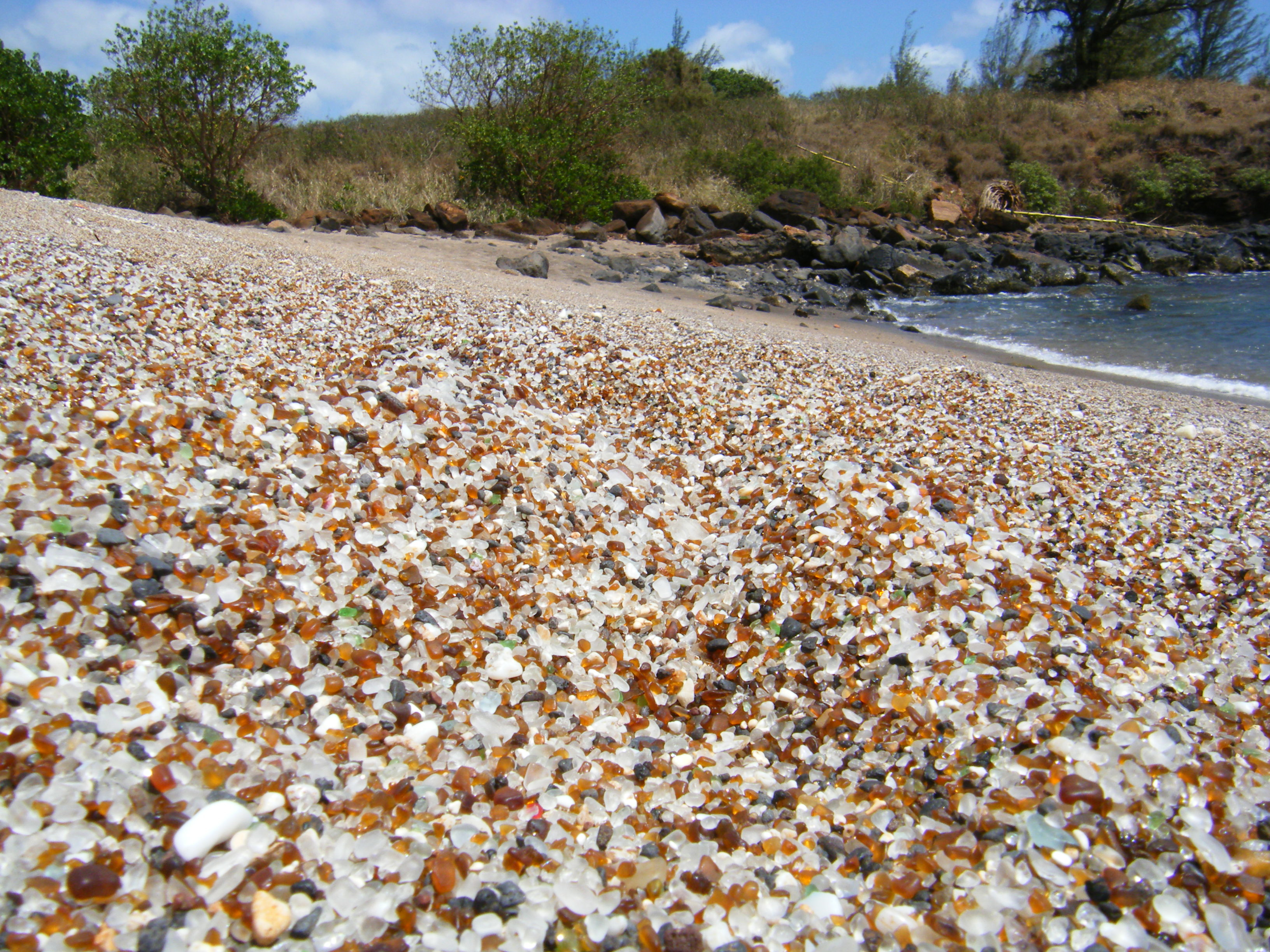 A beach in the industrial section of Eleele, Kauai called "Glass Beach" due to tons of smooth glass pebbles on the beach